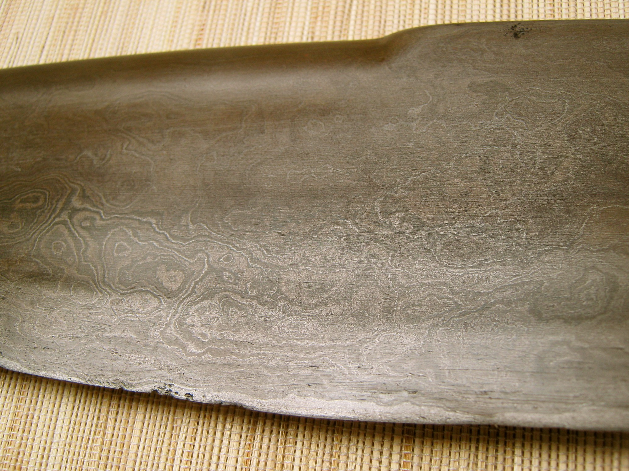 A rare 19th century 'shandigan' barung (barong). The short sword barung is commonly used by the Tausug Moros of Sulu archipelago. A shandigan-type barung is one with a swollen cutting edge. The photo of the entire sword is here. Another fine feature of this barung is the clearly visible exquisite lamination patterns. This close-up photo shows in great detail the said pattern. Barung dImensions -- overall length: 545 mm (21 1/2 inches); blade length: 370 mm (14 1/2 inches), maximum blade thickness: 8 mm (5/16 inch). Other uploaded materials by the same author are here: (a) Luzon weapons; (b) Visayan weapons; (c) Moro weapons; and (d) Lumad (non-Moro Mindanao) weapons